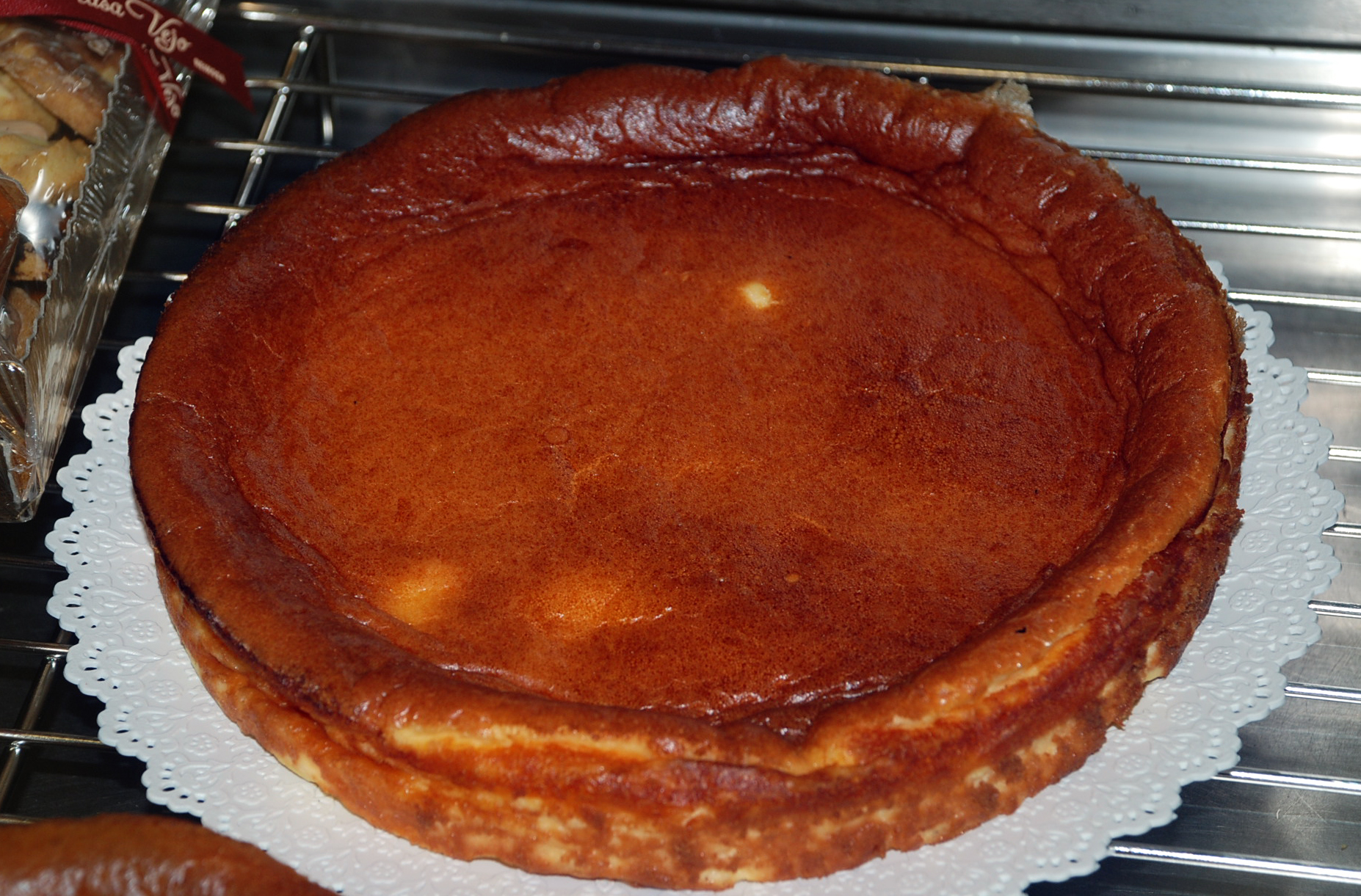 Tarta de queso of Reinosa, a typical dessert of Cantabria (Spain).